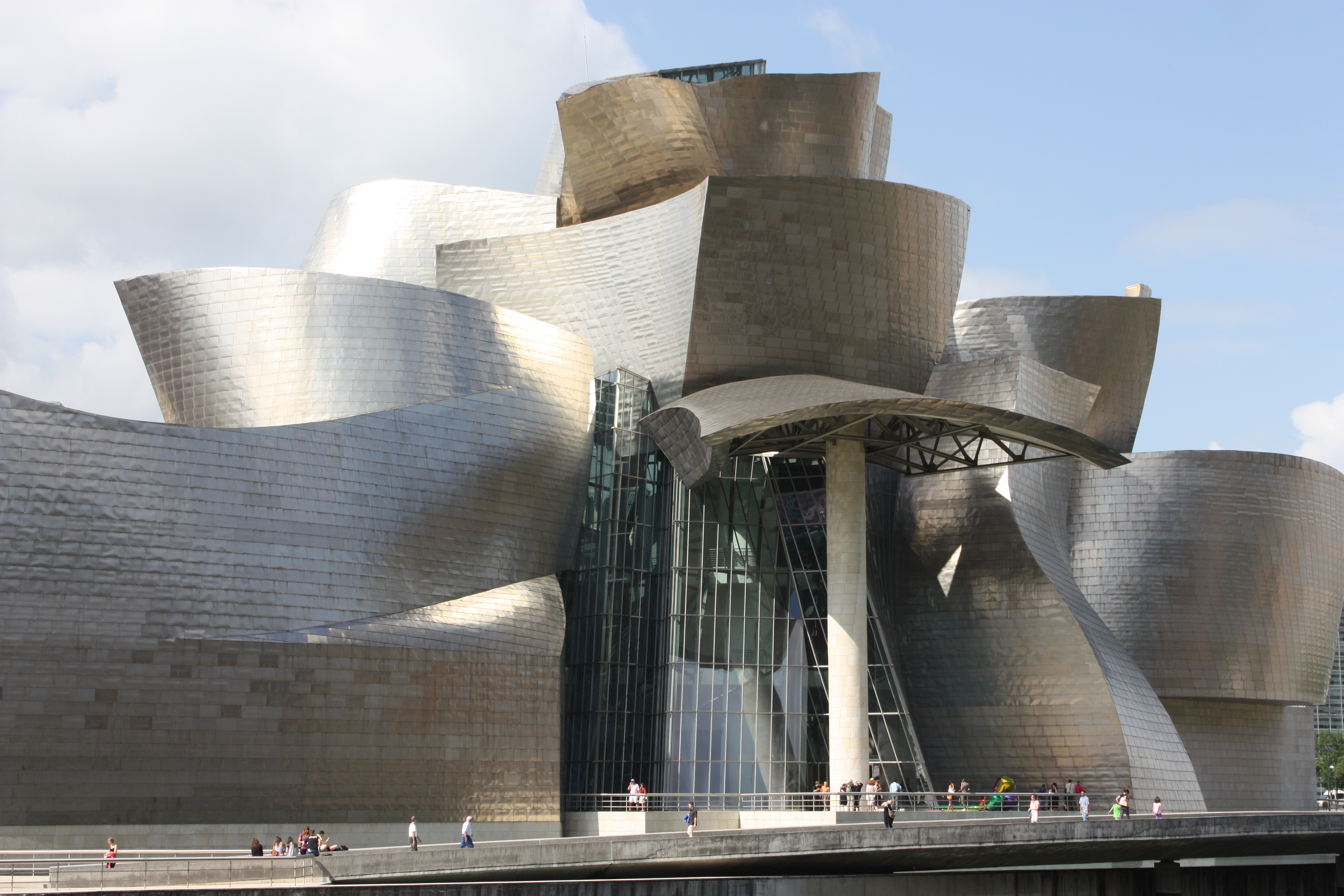 Guggenheim Museum, Bilbao, Biscay, Spain, July 2010 (viewed from opposite river bank)